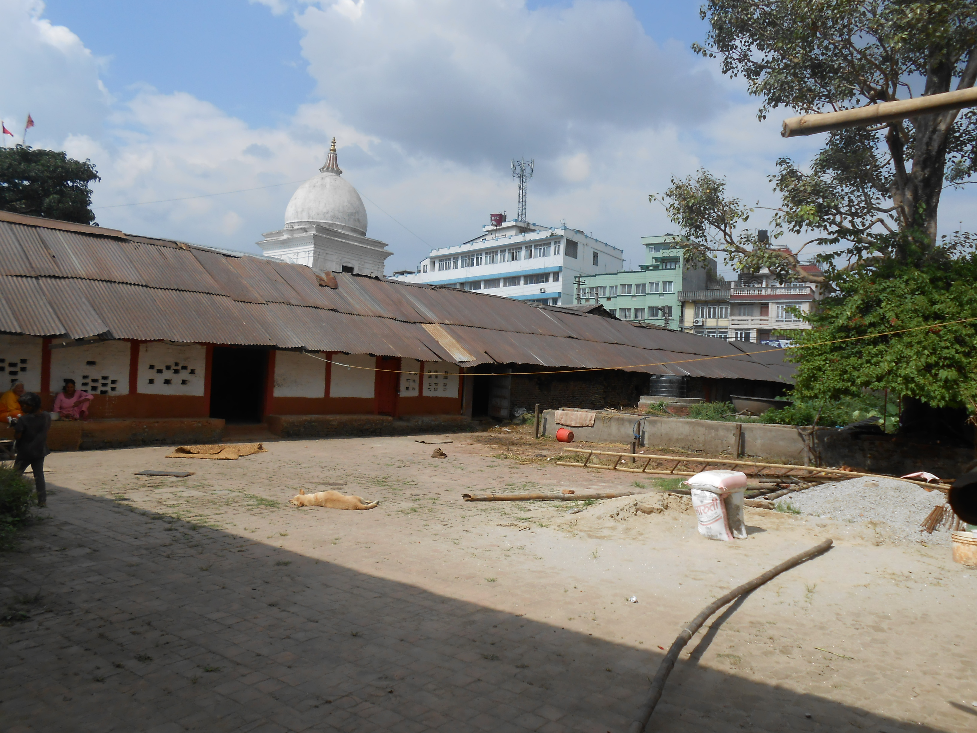 Udashi Akhada